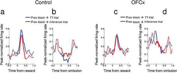 VTA inference of OFC lesion rats